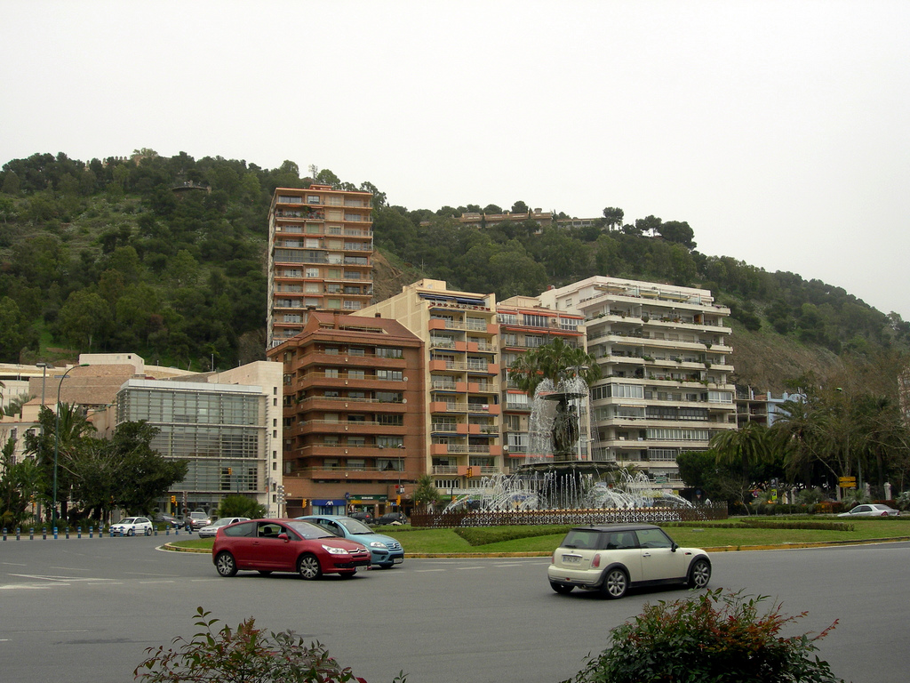 General Torrijos Square, Málaga.